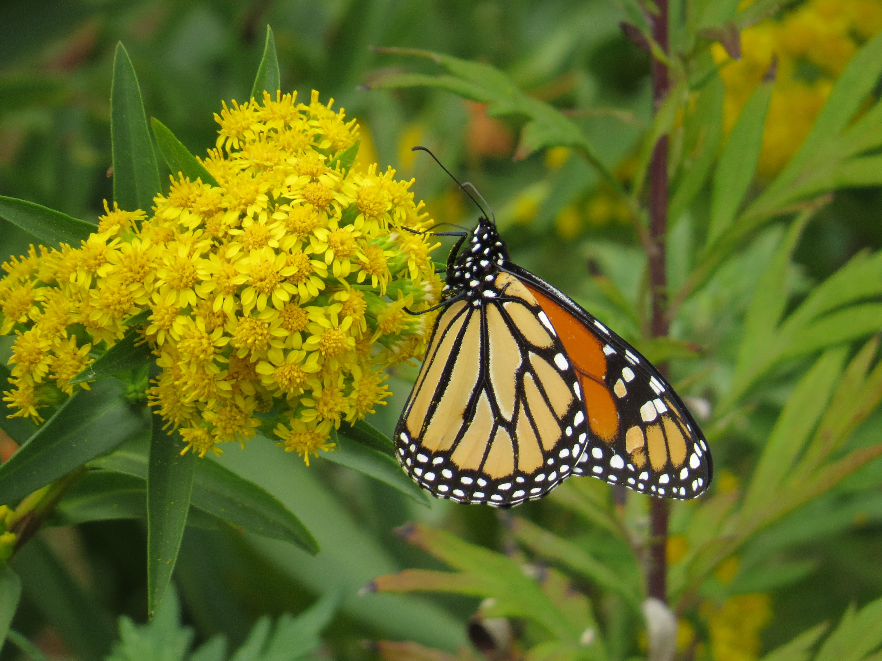 monarch butterfly, Jamaica Bay, New York